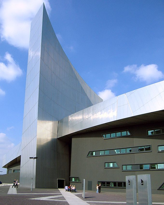 South face and entrance of the Imperial War Museum North by the Salford Quays. The main entrance is through the base of the air shard, a 55m high tower which is mostly an empty space frame structure. The cladding on the air shard is an open latice allowing wind to blow through the tower. Near the top of the tower is viewing platform looking across the Manchester ship canal towards the Lowry centre on the Salford Quays.